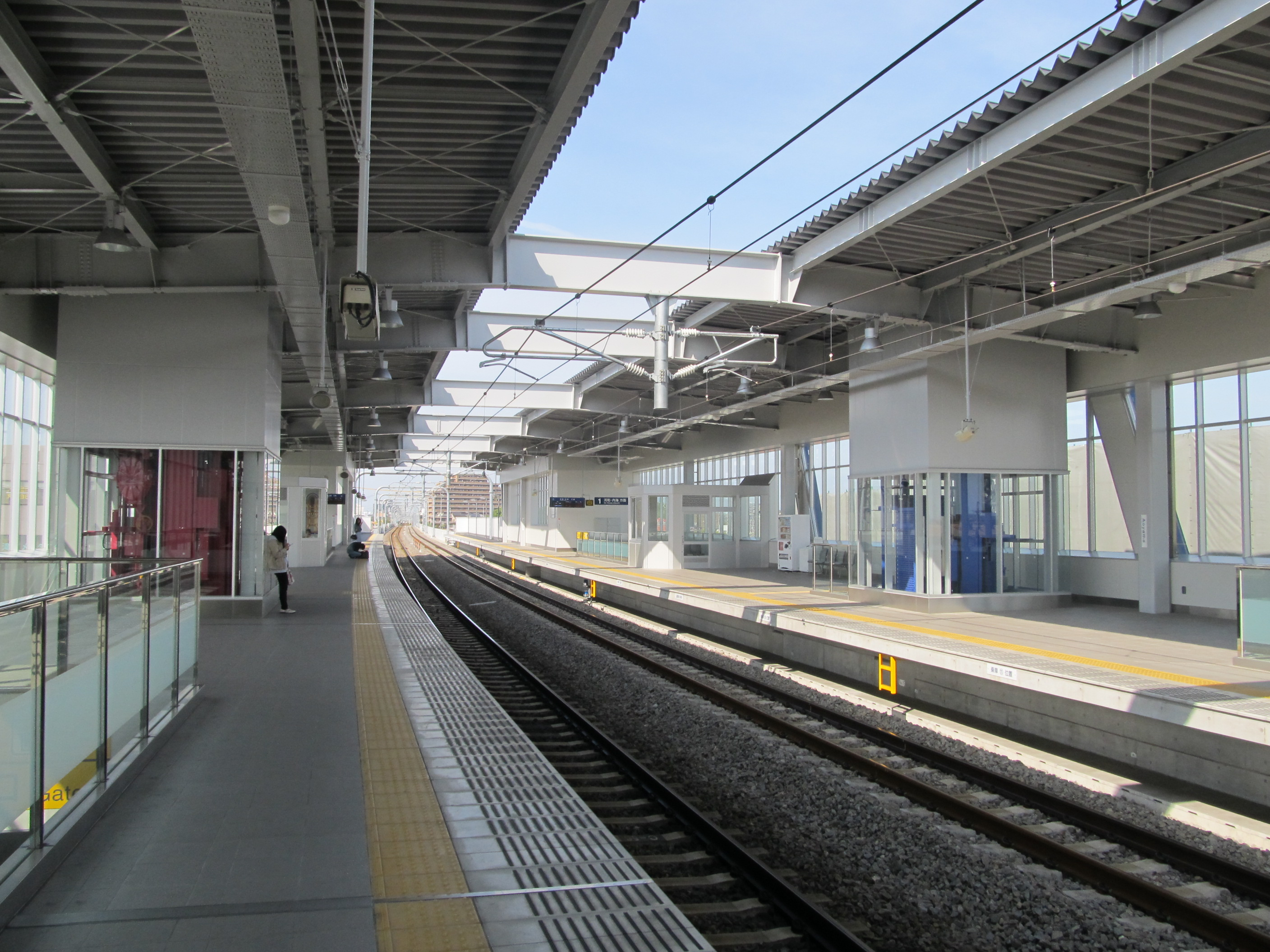 Nagoya Railroad Kōwa Line Aoyama Station Platform (for Chita-Handa)